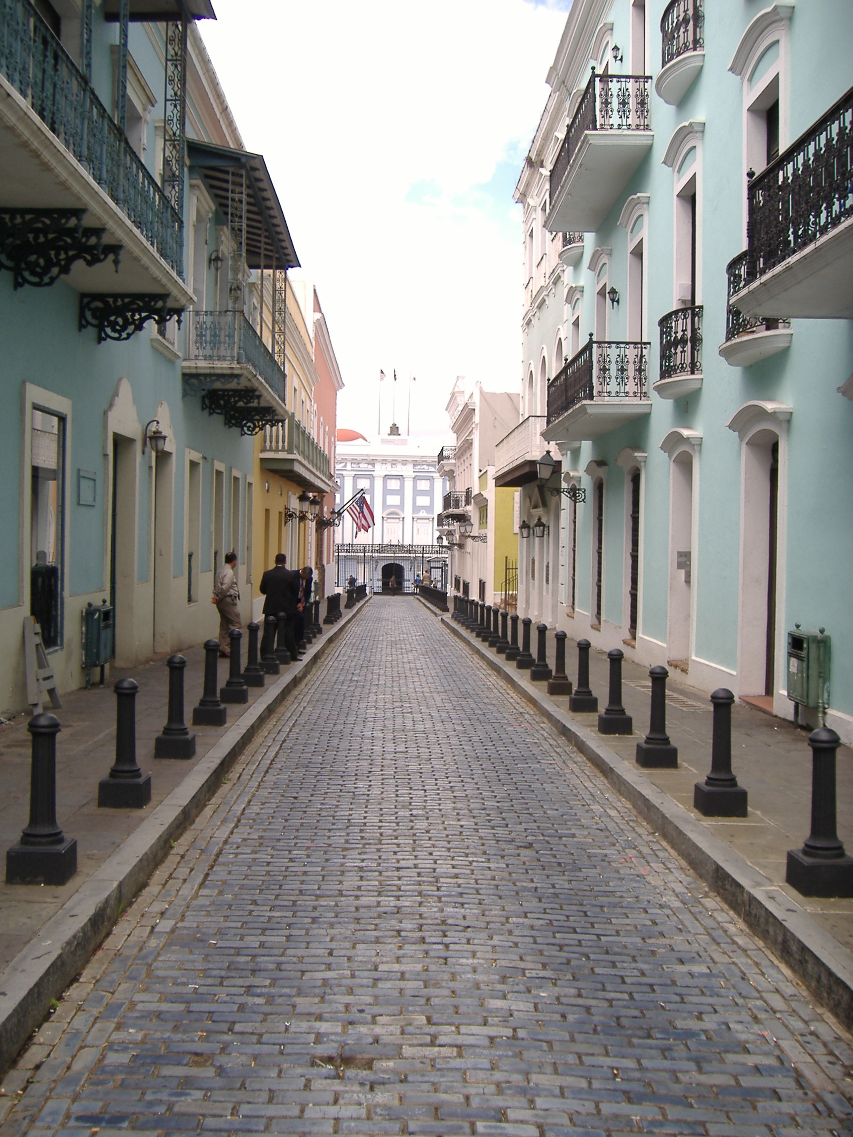 Spanish Colonial architecture along a street in Old San Juan — in the Old San Juan district/barrio of San Juan, Puerto Rico. Front facade of La Fortaleza seen at end of La Fortaleza Street.